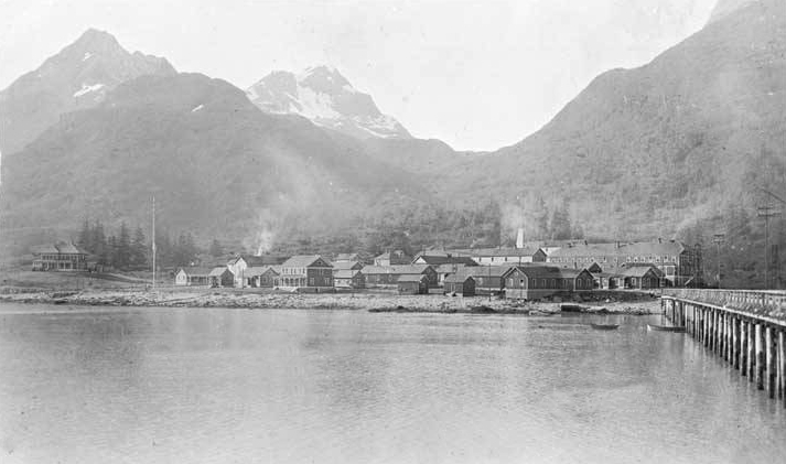 Detail from postcard depicting Fort Liscum, near Valdez, Alaska